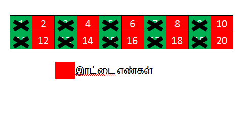 Even numbers